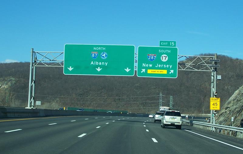 The western diverge, or join of the two freeways at exit 15 on the Thruway. The caution lights at the off-slip advisory resemble railway lights.